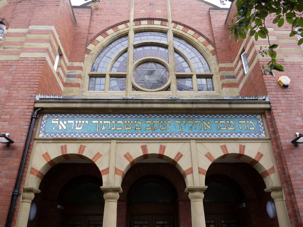 Synagogue, Eskdale Road, Jesmond - .uk